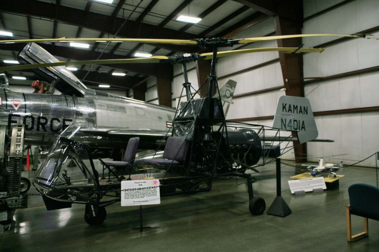 There is some question as to which was the first Kaman helicopter to be evaluated by the Navy. Some sources state that this machine, not the HTK, was first. Two of these prototypes were built. One was later re-engined with a gas turbine to become the world's first turbine-engine helicopter.